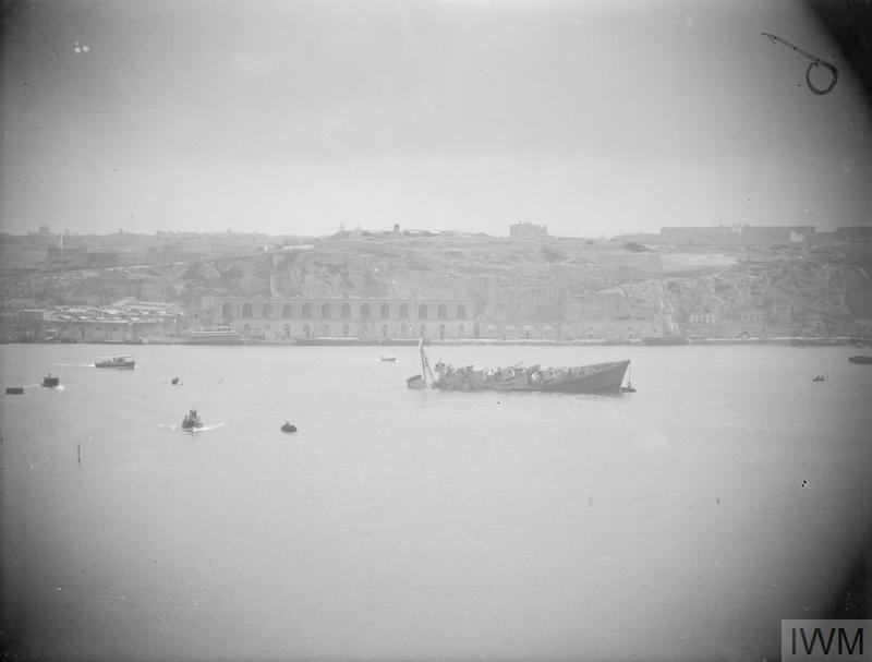 HMS Maori half submerged and sinking after being bombed in the early hours of 12 February 1942 in the Grand Harbour, Malta. She sank a few hours after the picture was taken.